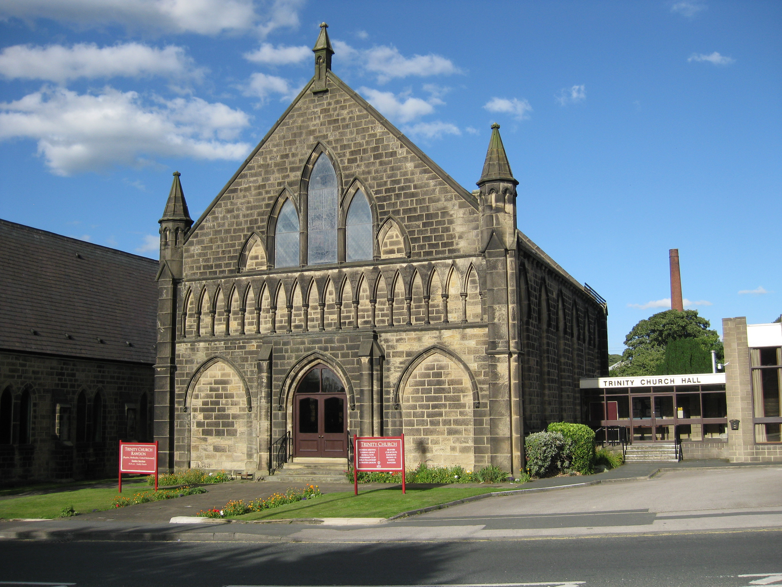 Trinity Church, New Road Side, Rawdon, Leeds, West Yorkshire, seen from the southwest